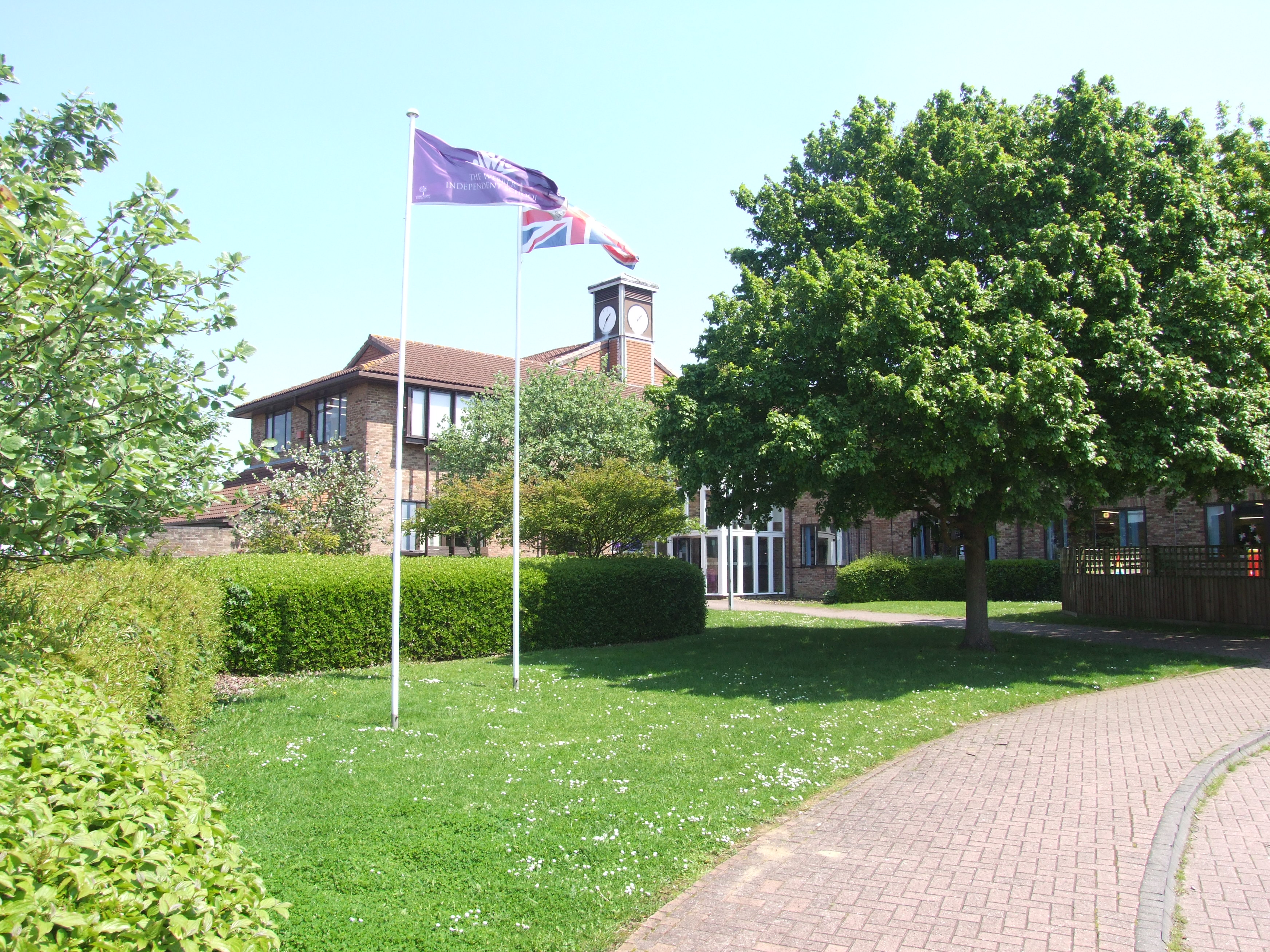 View across to the school reception and main building